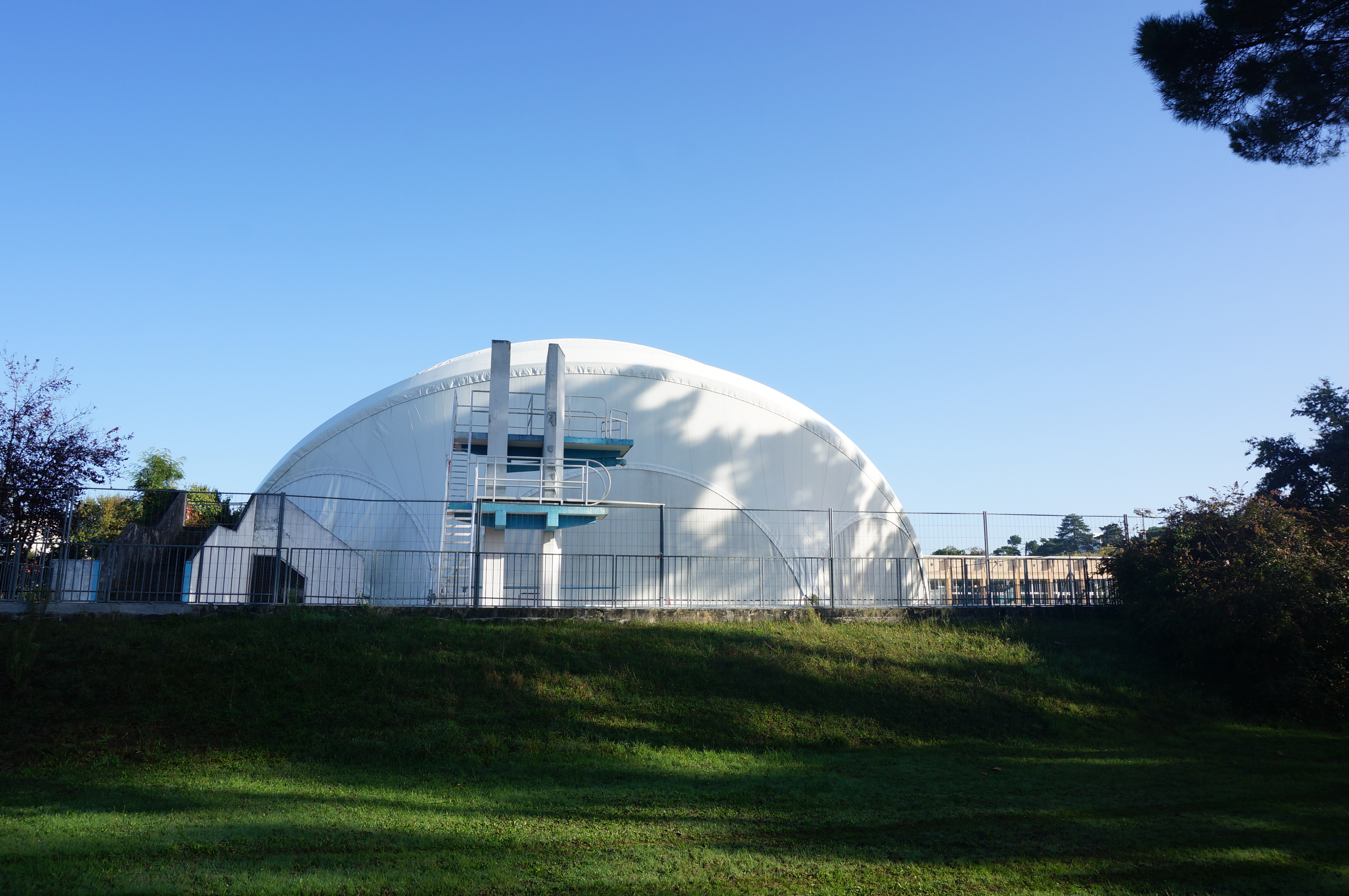 Swimming stadium of Merignac (Gironde, France), with diving tower, olympic swimming pool and 25 m swimming pool.